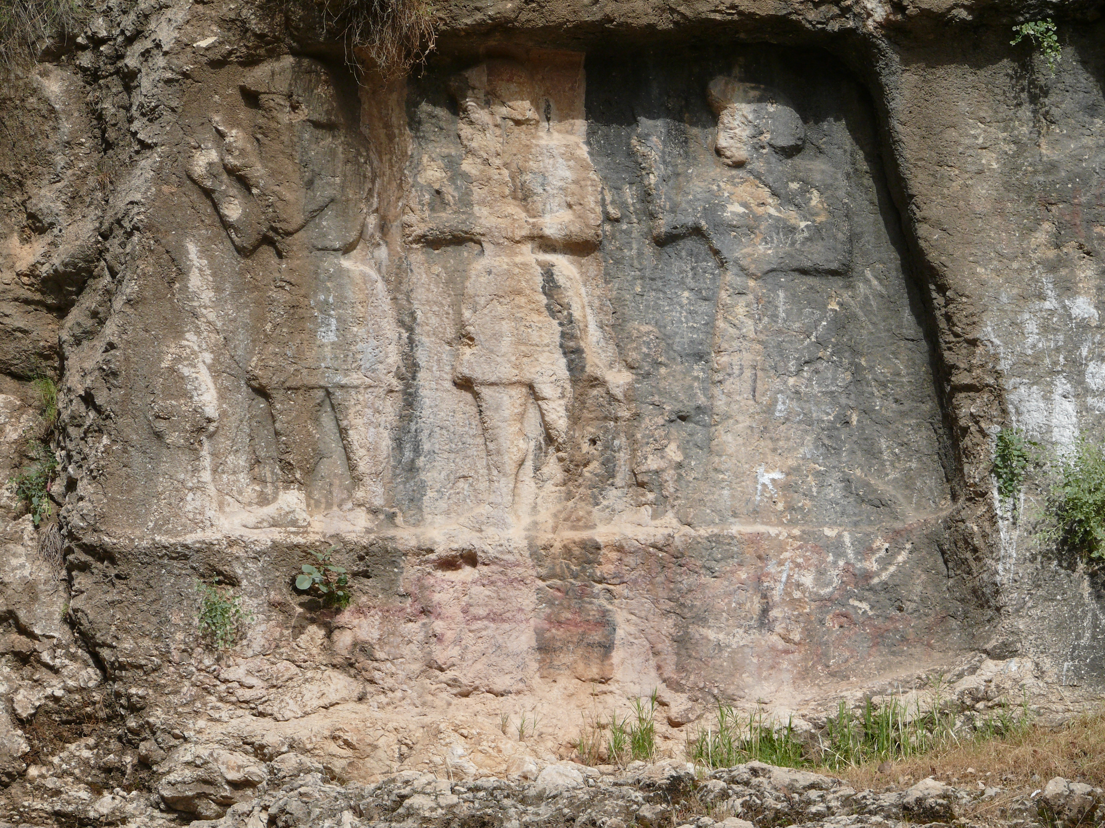 Elamite rock relief said Eshkaft-e Salman I depicting a religious office holded by Shutruru, duignitary of King Hanni at Eshkaft-e Salman (Salomon’s cave), city of Izeh, Khouzestan province, Iran